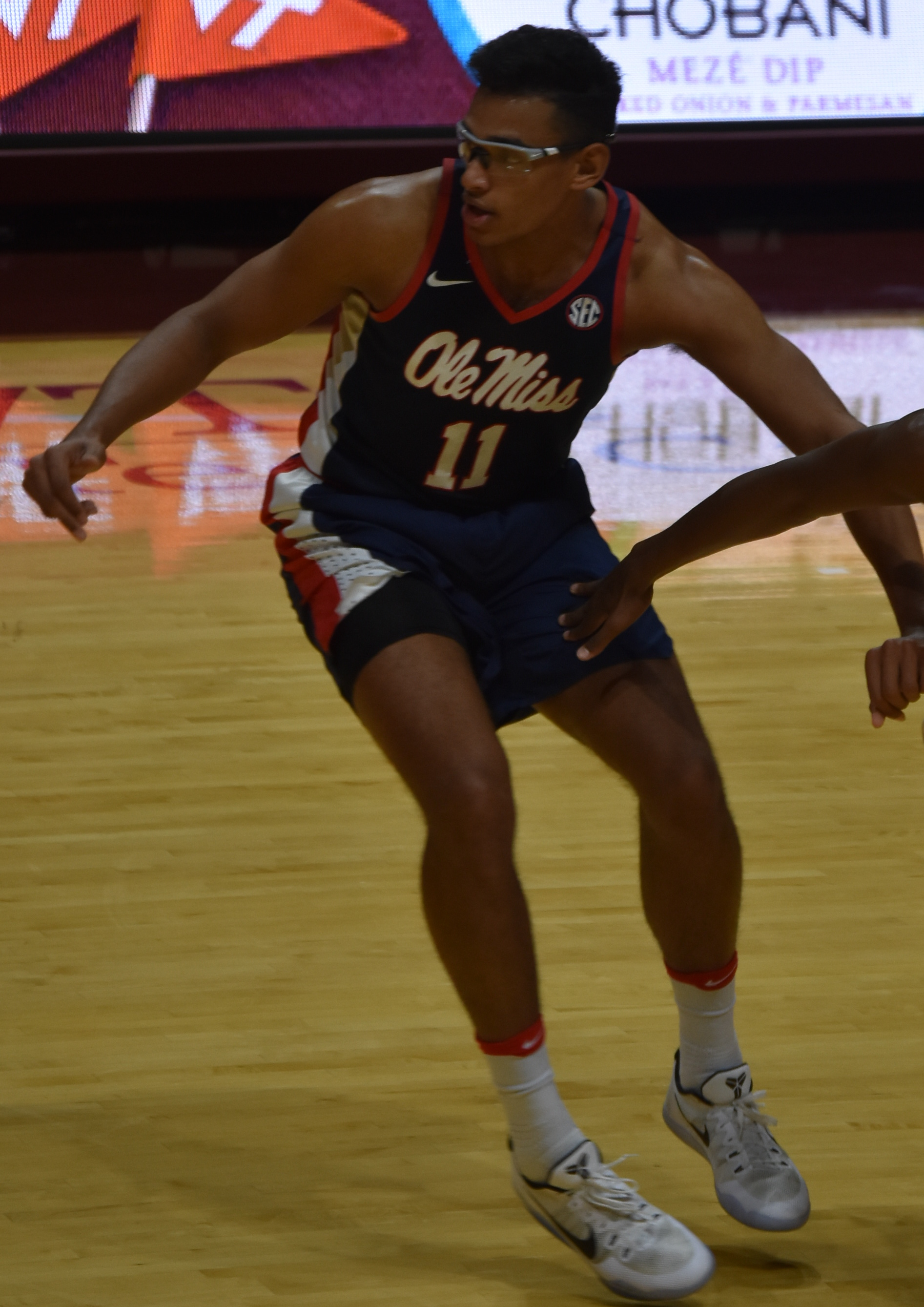 Justin Bibbs handles the ball for the Hokies